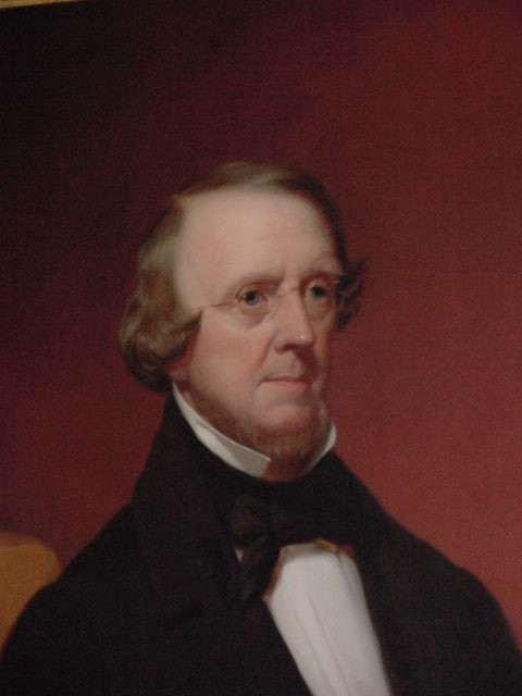 Roger Sherman Baldwin